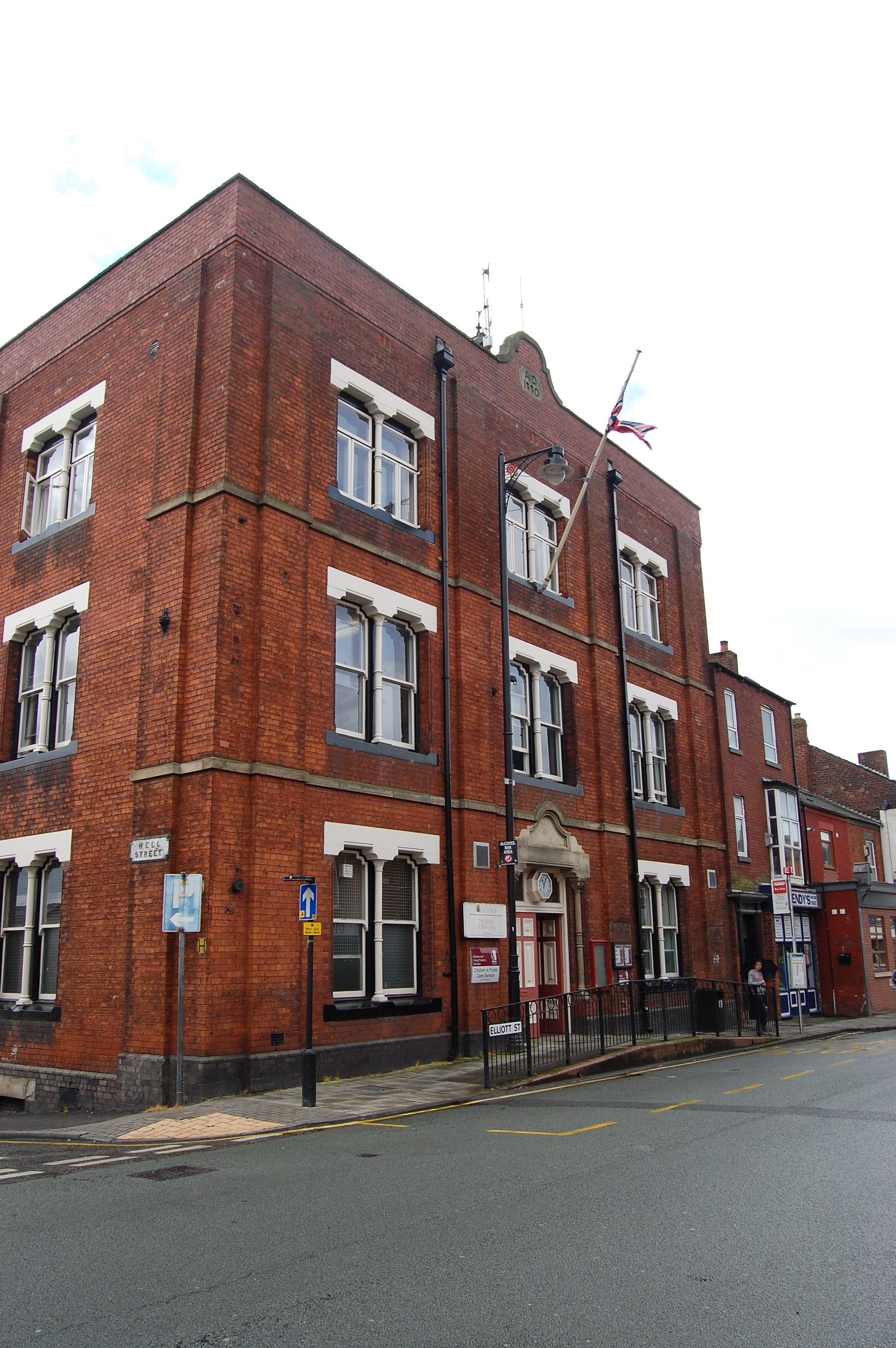 Tyldesley Town Hall in Tyldesley, Greater Manchester, England.